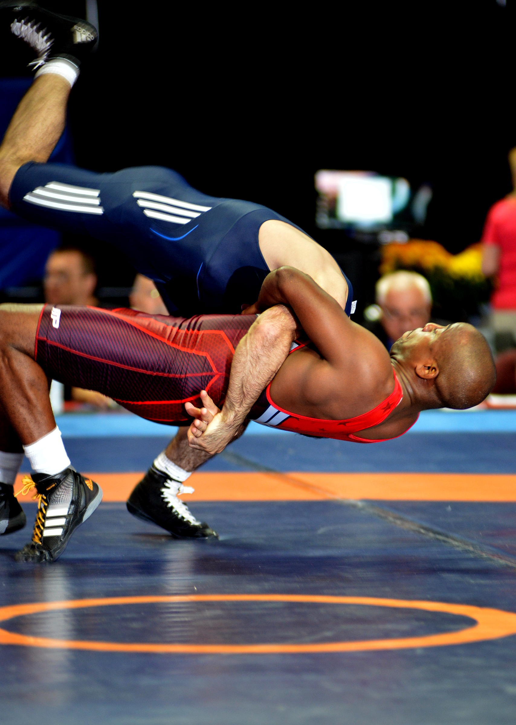 Sgt. Justin "Harry" Lester of the U.S. Army World Class Athlete Program throws Yunus Ozel of Turkey en route to an 8-6 victory in the 1/8 final round round of the men's 71-kilogram Greco-Roman division of the 2015 World Wrestling Championships on Tuesday at the Orleans Arena in Las Vegas. In the quartefinals, Lester will face Rasul Chunayev of Azerbaijan. U.S. Army photo by Tim Hipps, IMCOM Public Affairs